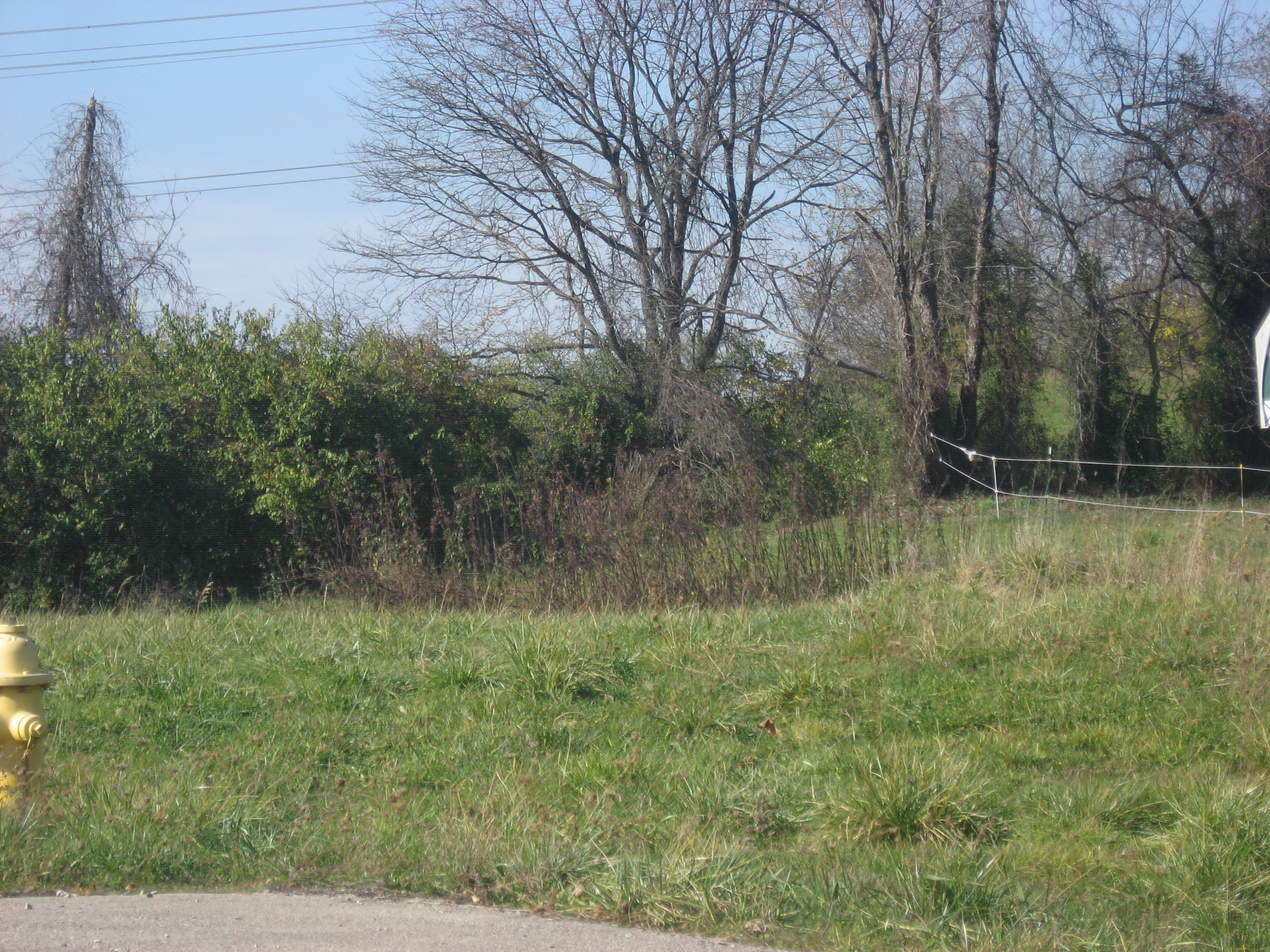 Looking toward the Conrad Mound Archeological Site from a small street off Rittenhouse Road southwest of Cleves in Miami Township, Hamilton County, Ohio, United States. The mound (not really visible through the brush) is the center of the site, which encompasses approximately five acres surrounding the mound. Built by people of the Adena culture, the mound and surrounding area are an important archaeological site and are listed on the National Register of Historic Places.